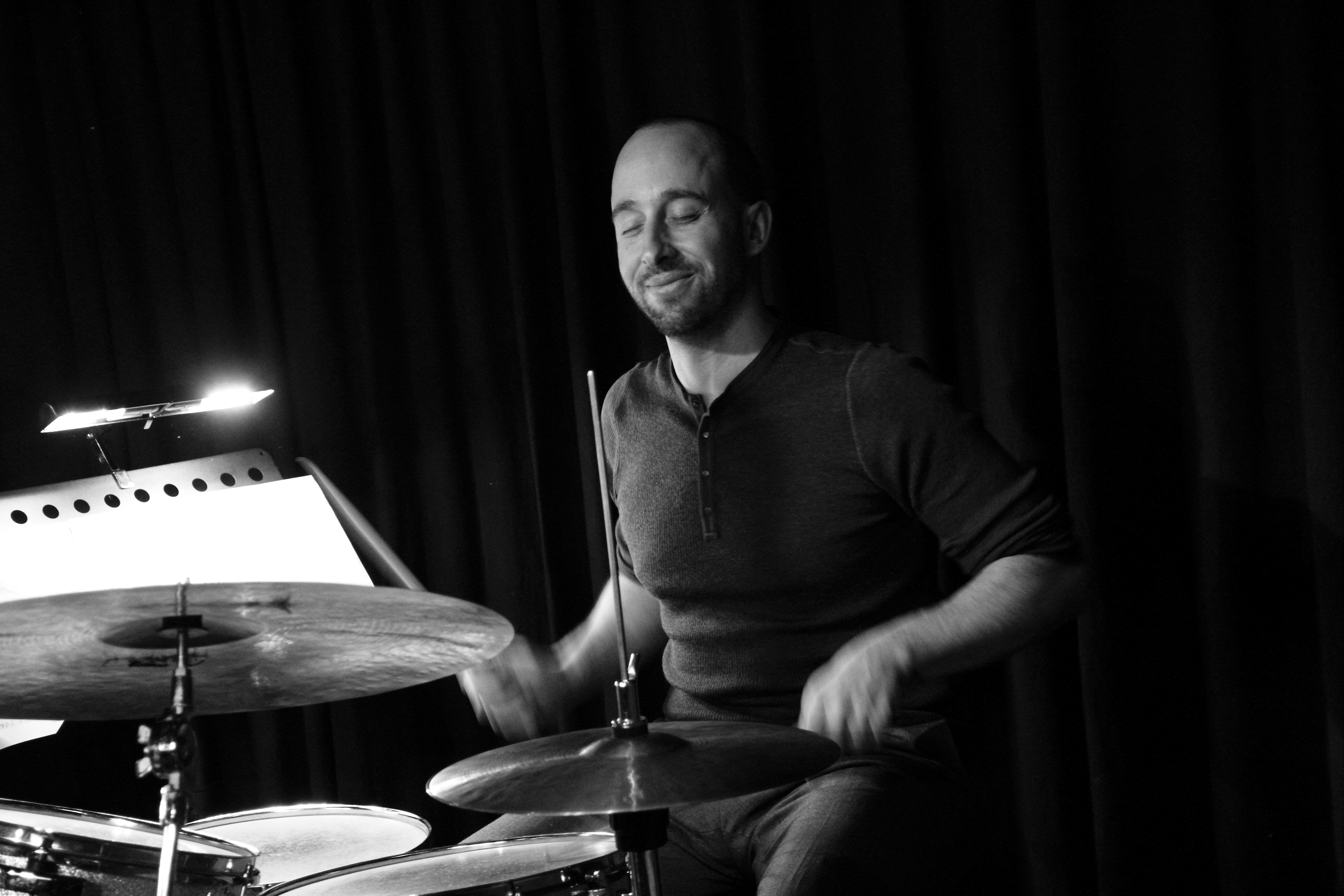 The Nate Wooley Quintet in concert at Club W71, Weikersheim..